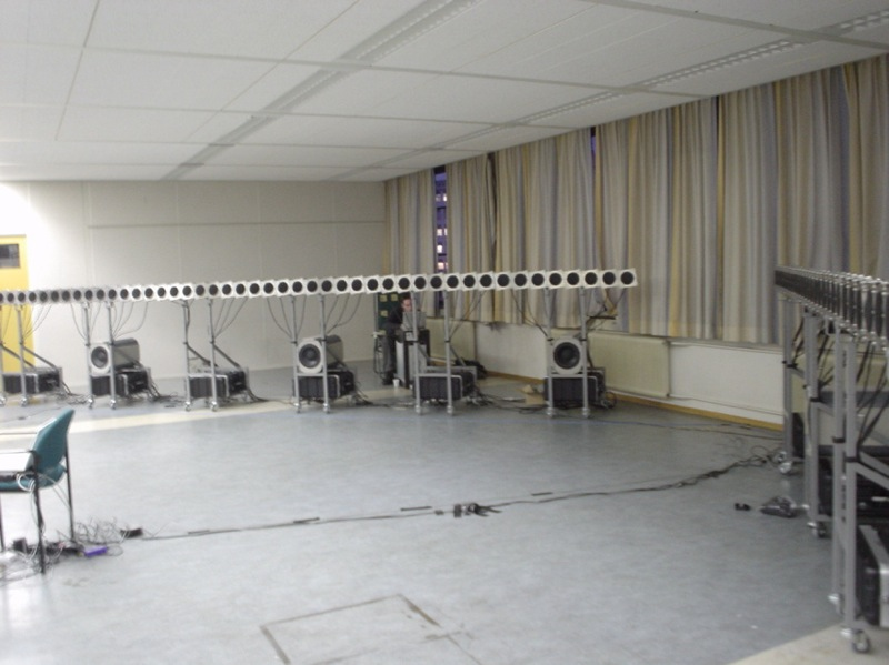 13 November 2006 A wavefront synthesis speaker array in Eindhoven. More than 200 speakers are controlled by two quad processor G5s. The G5s are attached to MOTUs which individually control every speaker. Each speaker is also amplified separately. The G5 is running all of this with SuperCollider.